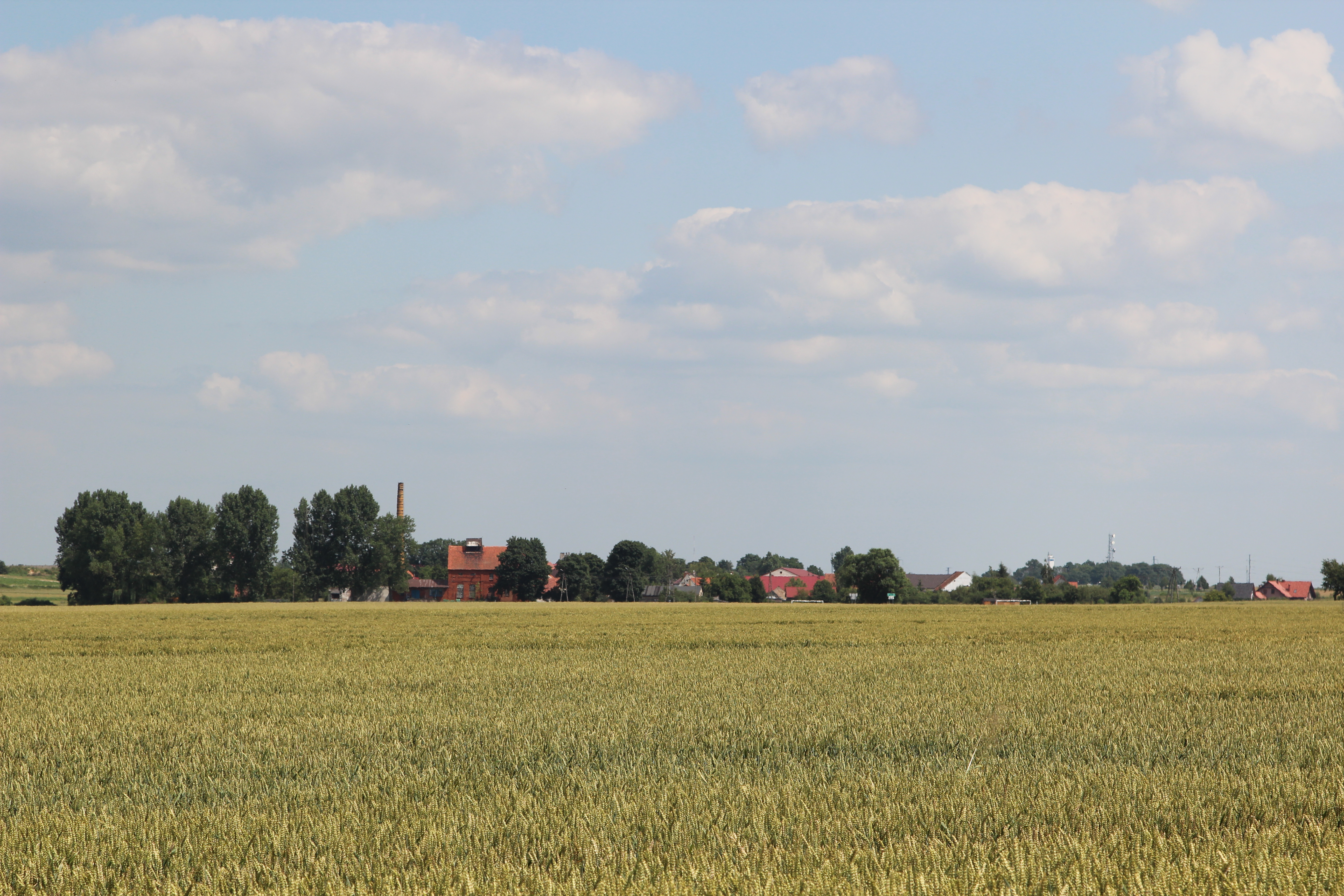 Strzeganowice general view seen from marked blue trail